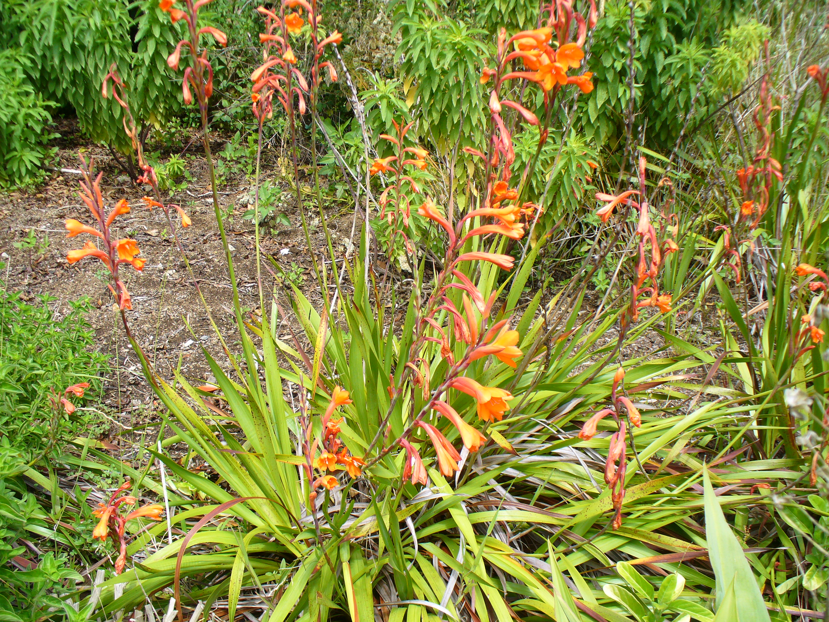 Watsonia pillansii. L bolus